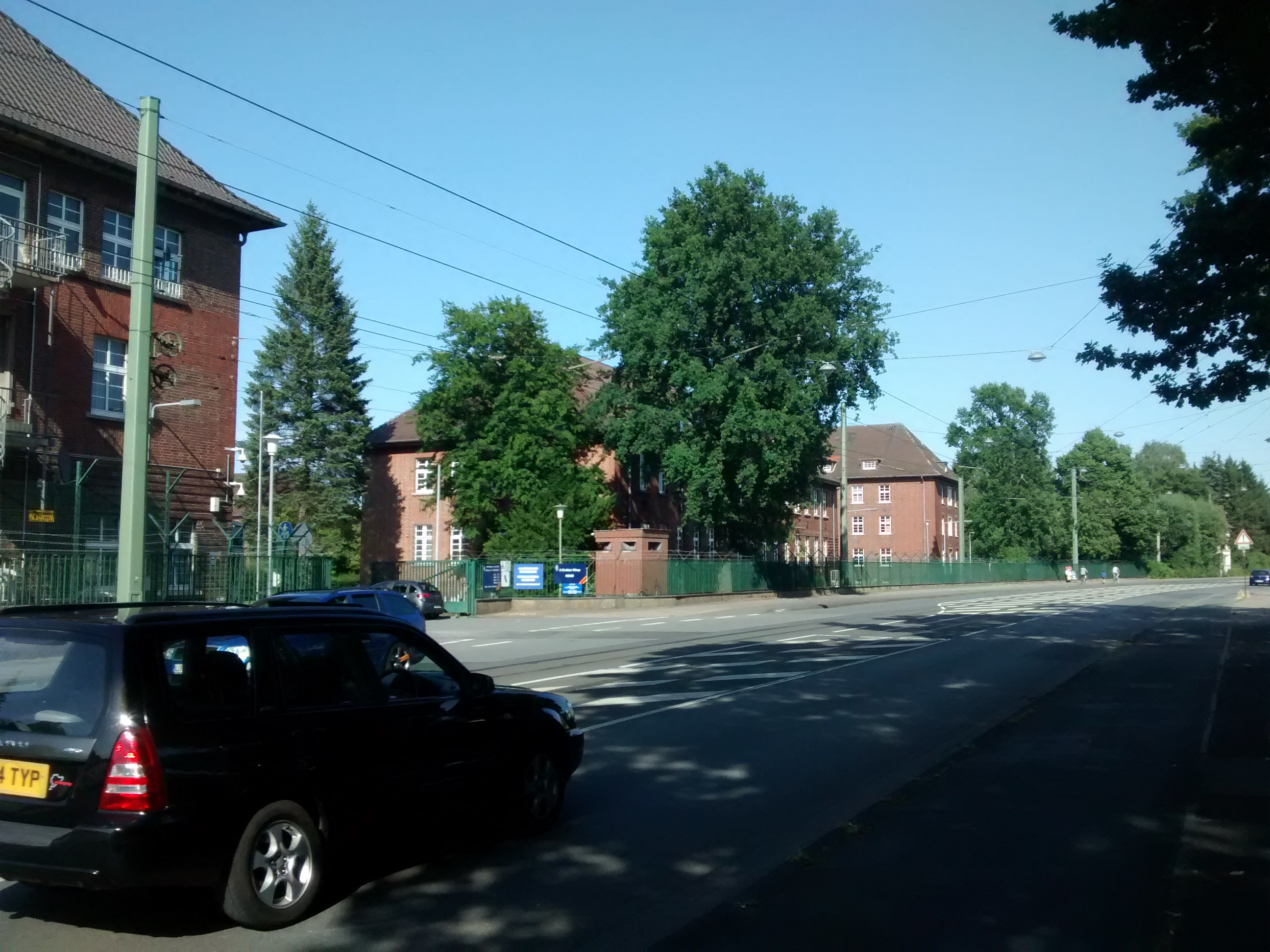 British Forces Germany (www-bfgnet-de) are posessing a former german military building. 2019 they planningly want to leave.